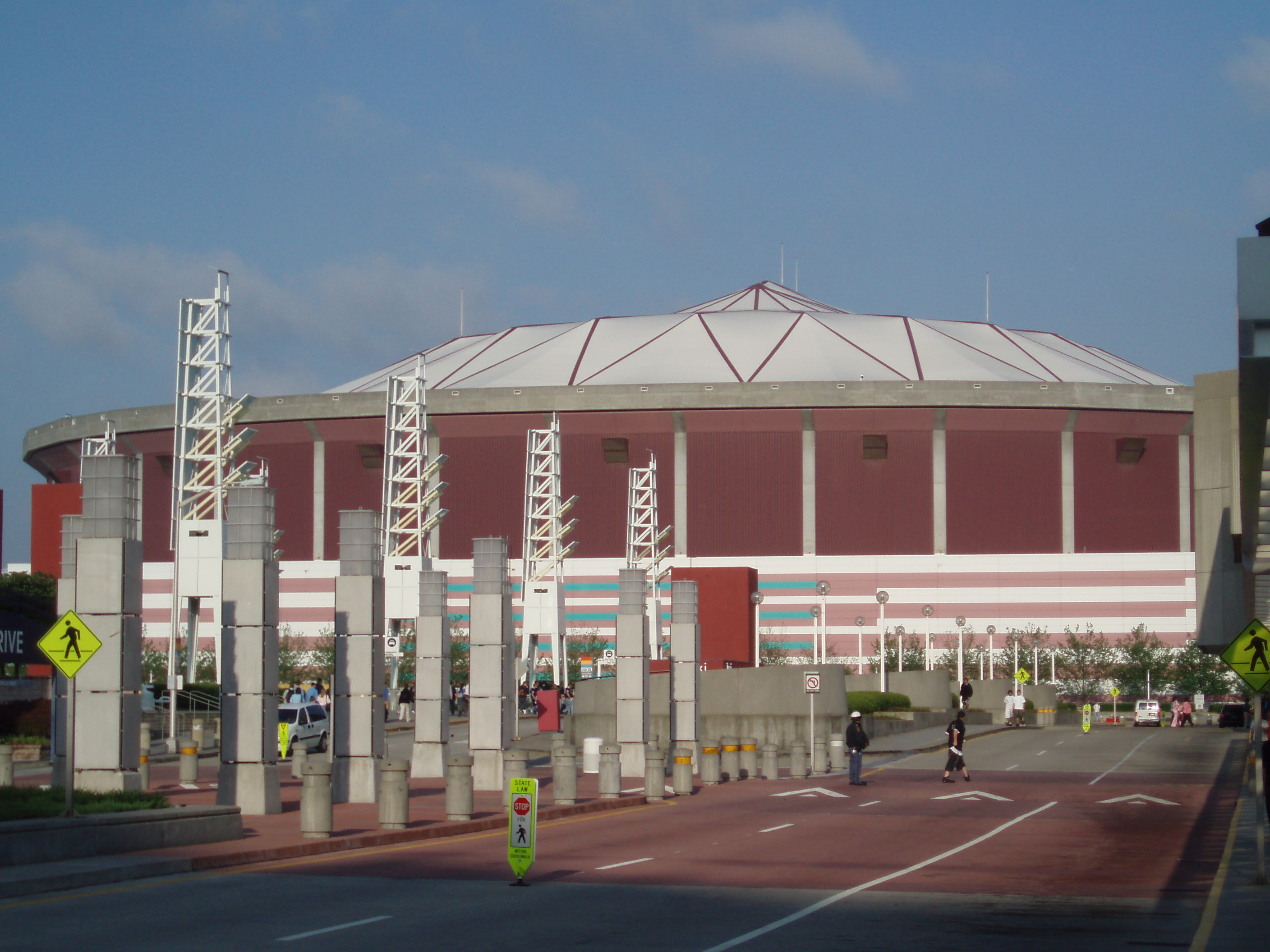 A photograph of the Georgia Dome prior to the 2006 FIRST Robotics National competition.